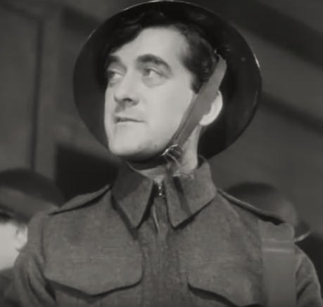 Philip Bourneuf in A Salute to France - cropped screenshot